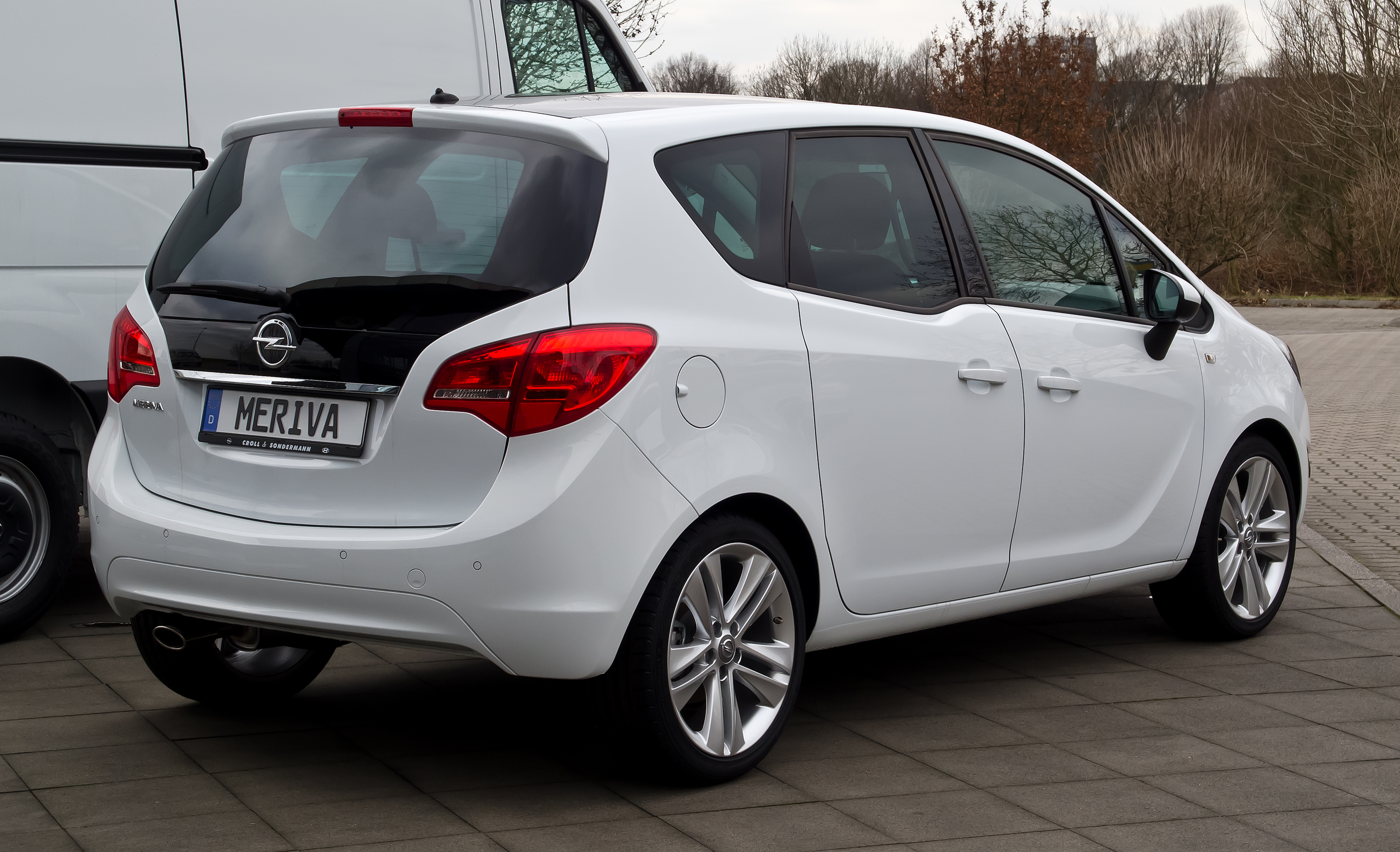 Opel Meriva 1.4 Design Edition (B)